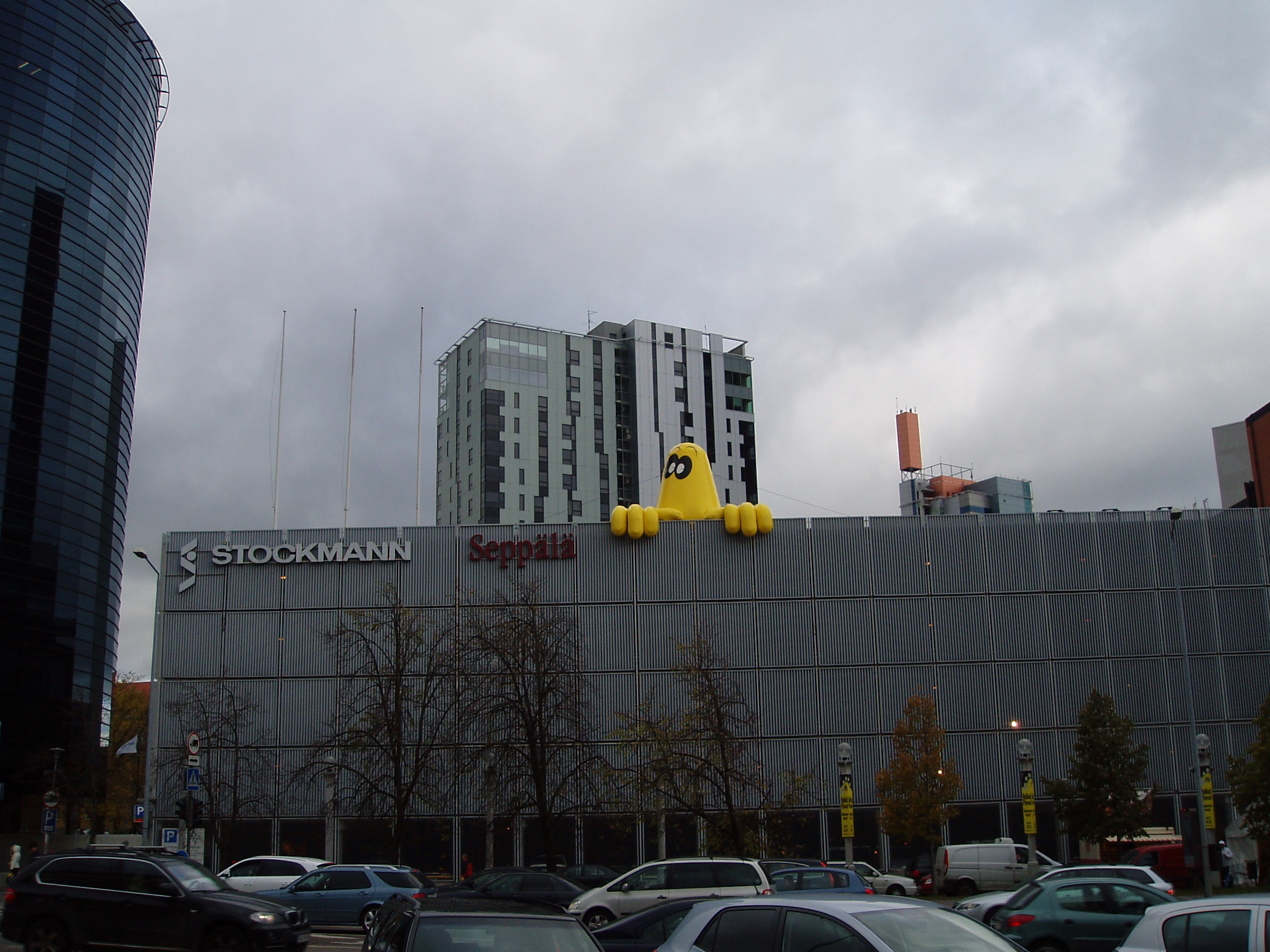 Crazy Days in Stockmann on 15 October 2010